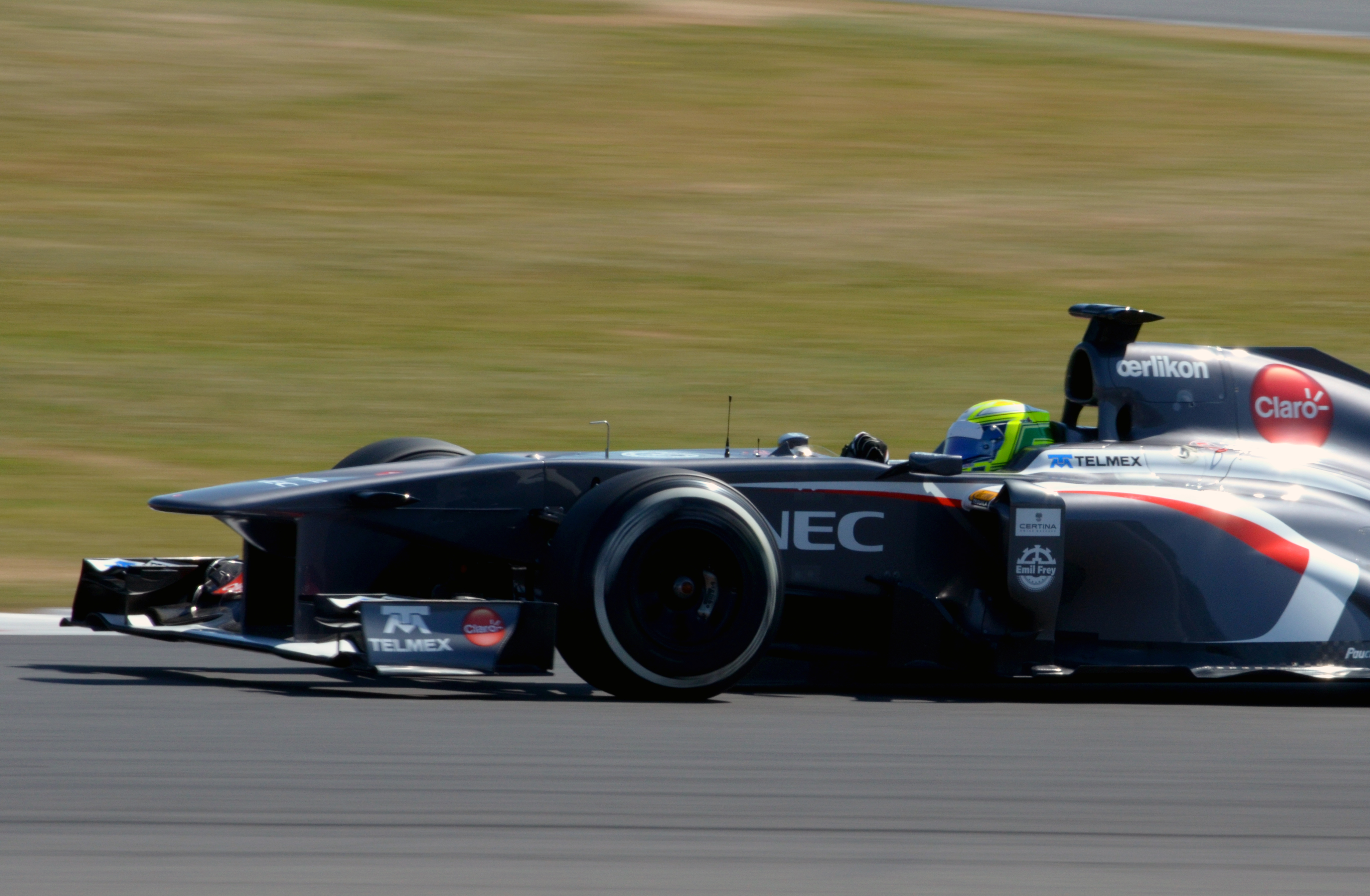 Kimiya Sato driving the Sauber C32 at the Young Drivers' Test at Silverstone.